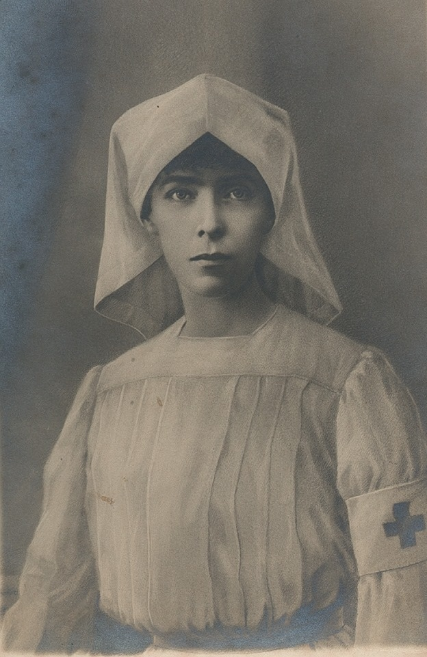 Elisabeth, Queen of the Belgians